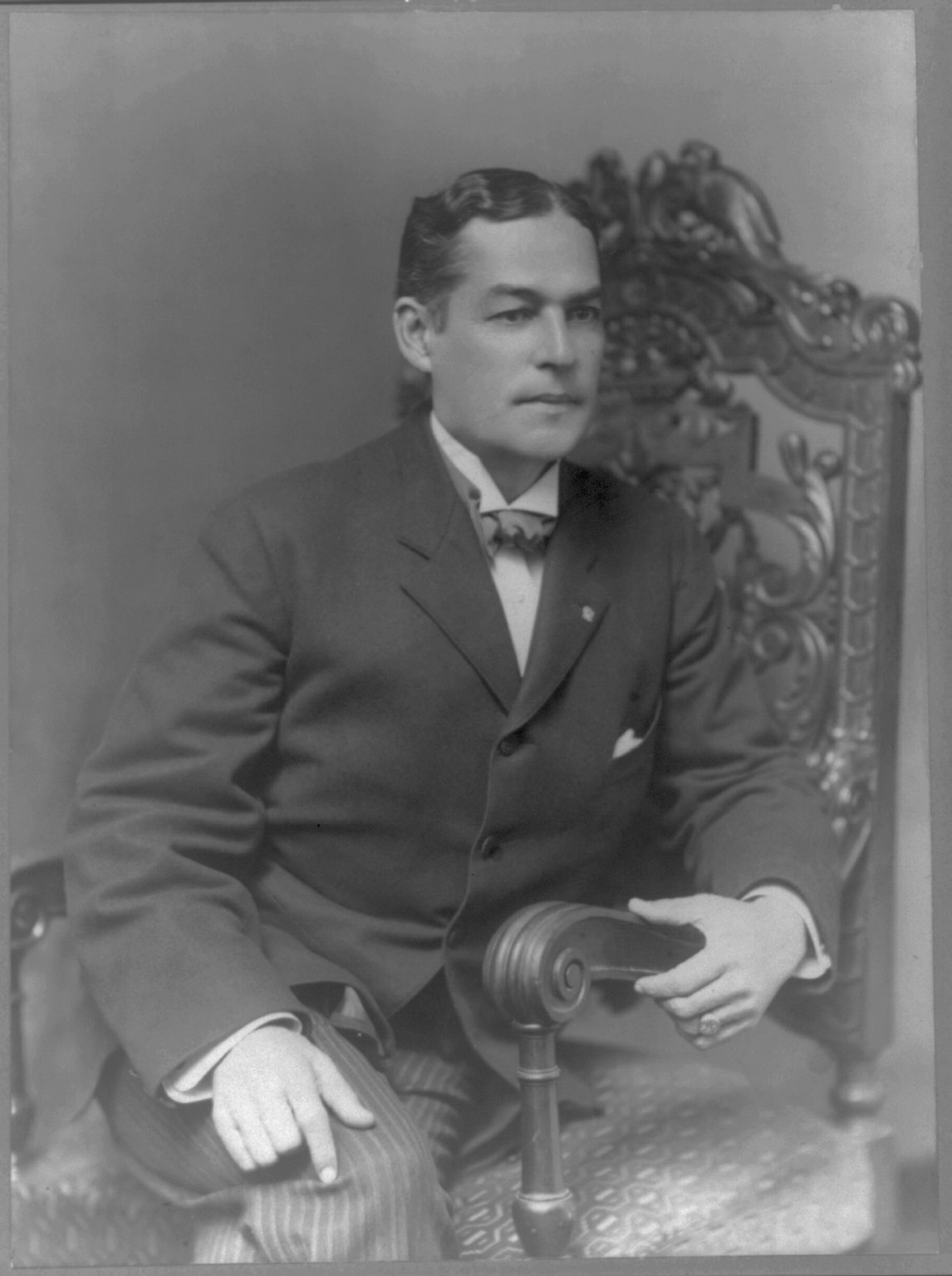 Title: Robert Latham Owen, 1856-1947, (Sen.- D. Okla.), three-quarter length portrait, seated in chair, facing right Abstract/medium: 1 photographic print.